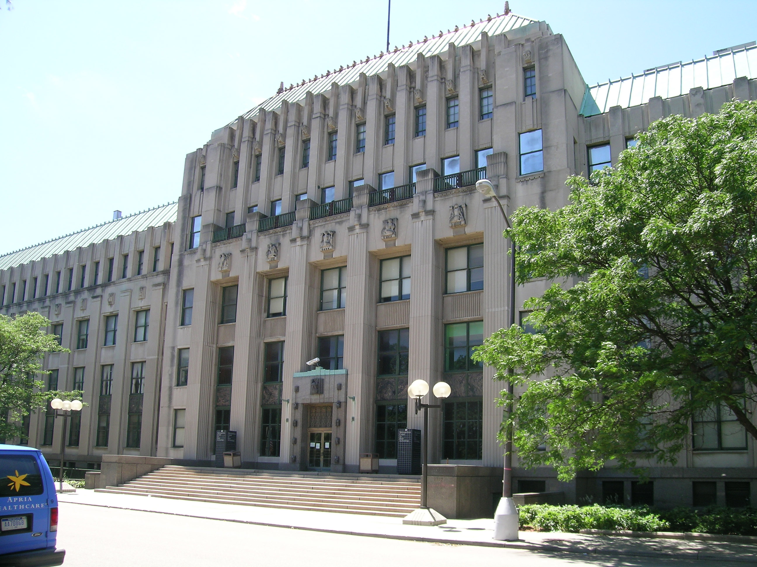 Kresge World Headquarters — Detroit, Michigan. The office building now houses the Metropolitan Center for High Technology, a part of Wayne State University. Designed by Albert Kahn in 1928 with Art Deco architectural elements. A Contributing property in the Cass Park Historic District. The building is a Registered Michigan State Historic Site.